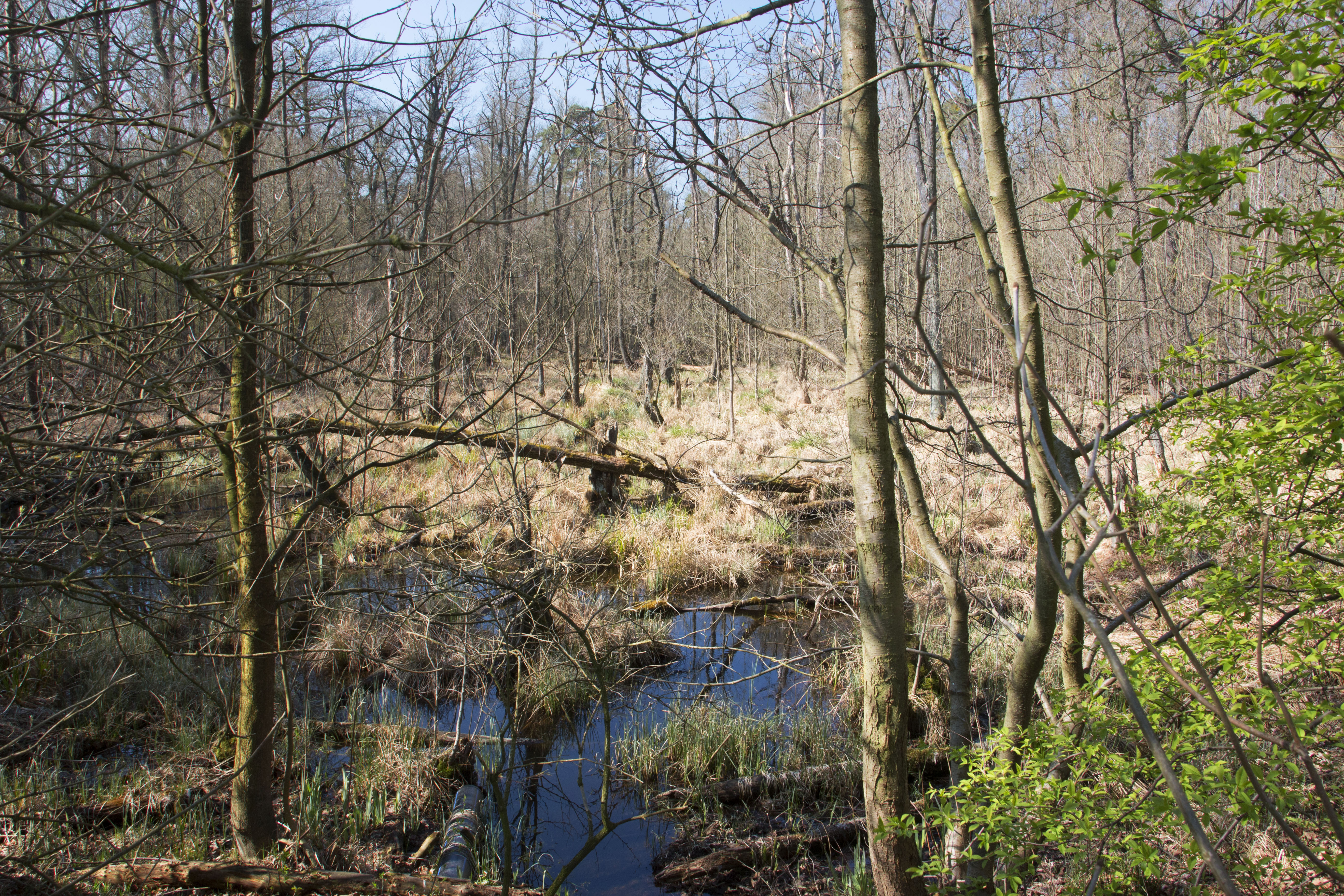 The creek "Taube" in the nature reserve "Taubequellen"